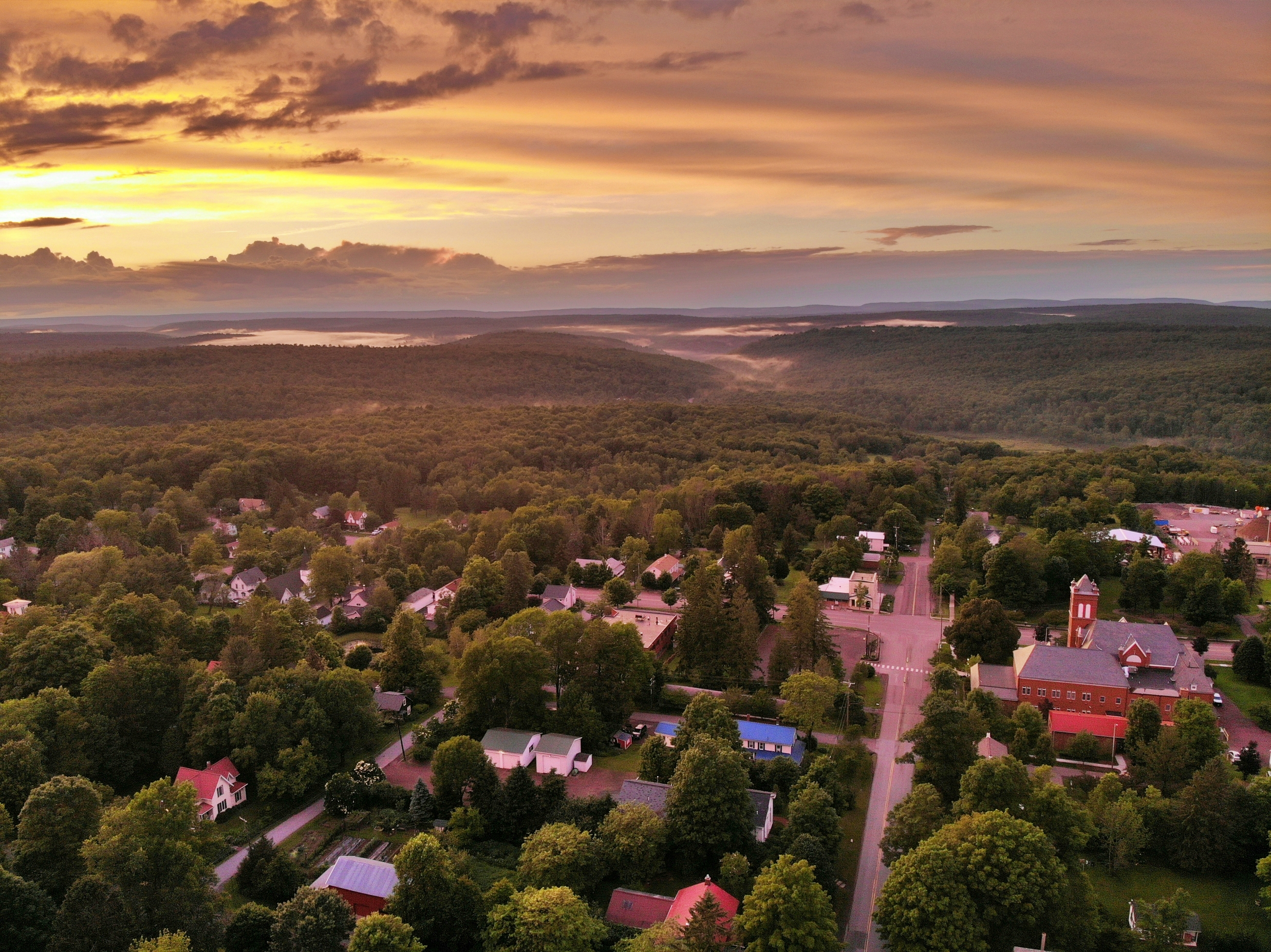 Aerial View of Laporte, Pennsylvania facing north towards World's End State Park. The Sullivan County Courthouse can be seen on the right, which was recognized as a National Historic Landmark in 1978 at the intersection of Muncy and Main Street(s).